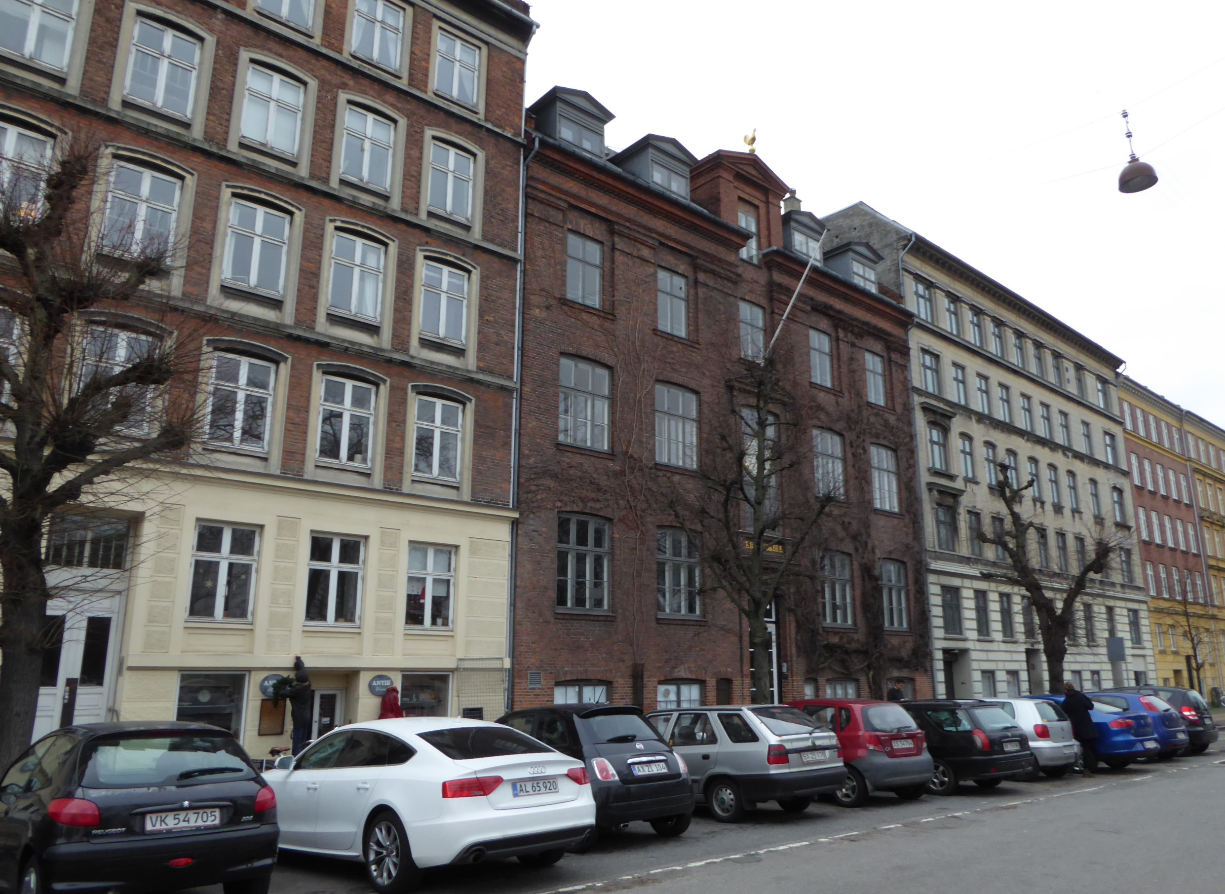 The school Krebs' Skole at Stockholmsgade in Østerbro in Copenhagen.